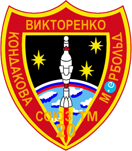 The official crew patch for the Russian Soyuz TM-20 mission, which delivered the EO-17 crew to the space station Mir.